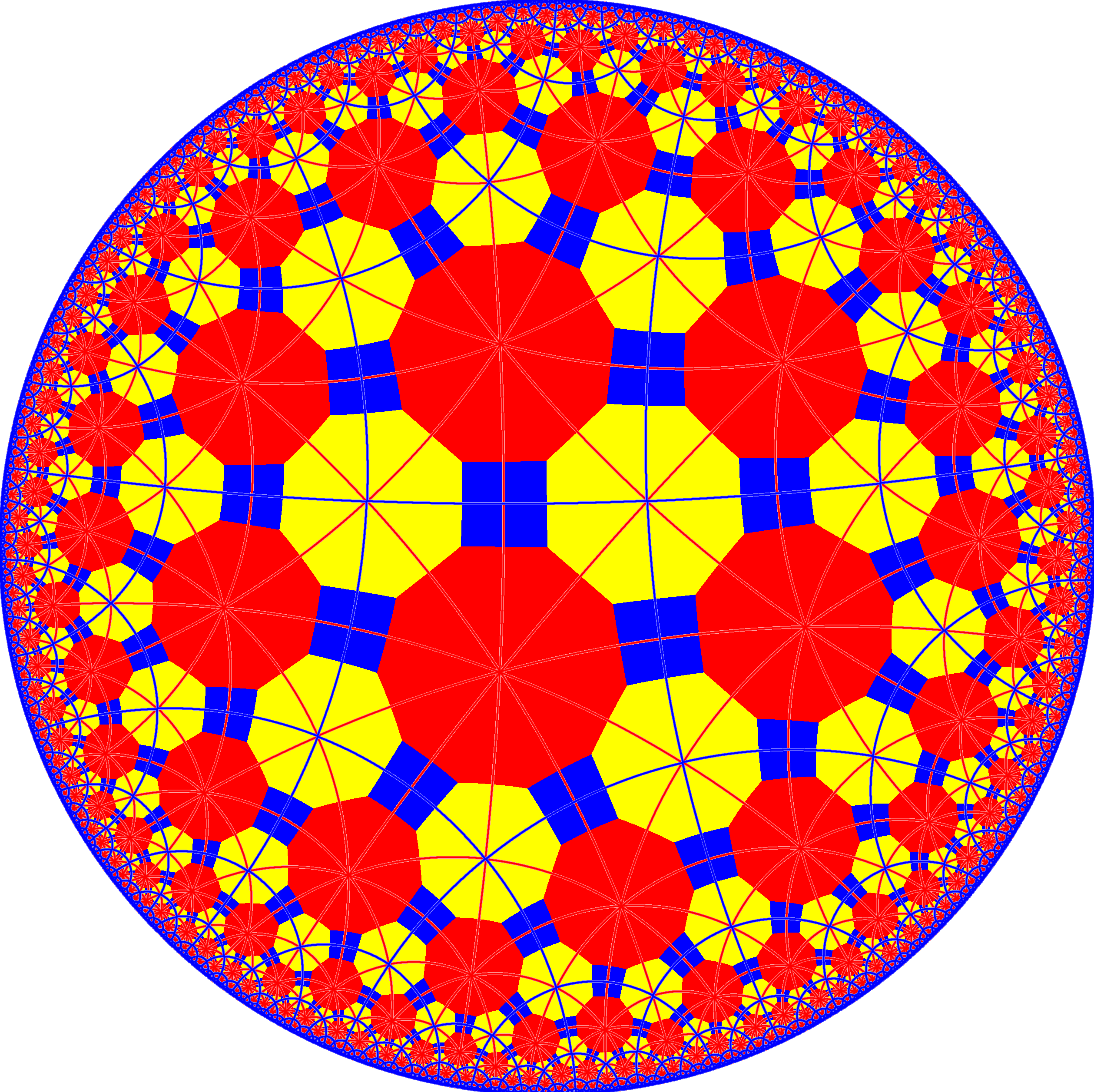 File:H2_tiling_245-7.png with File:542_symmetry_000.png overlay